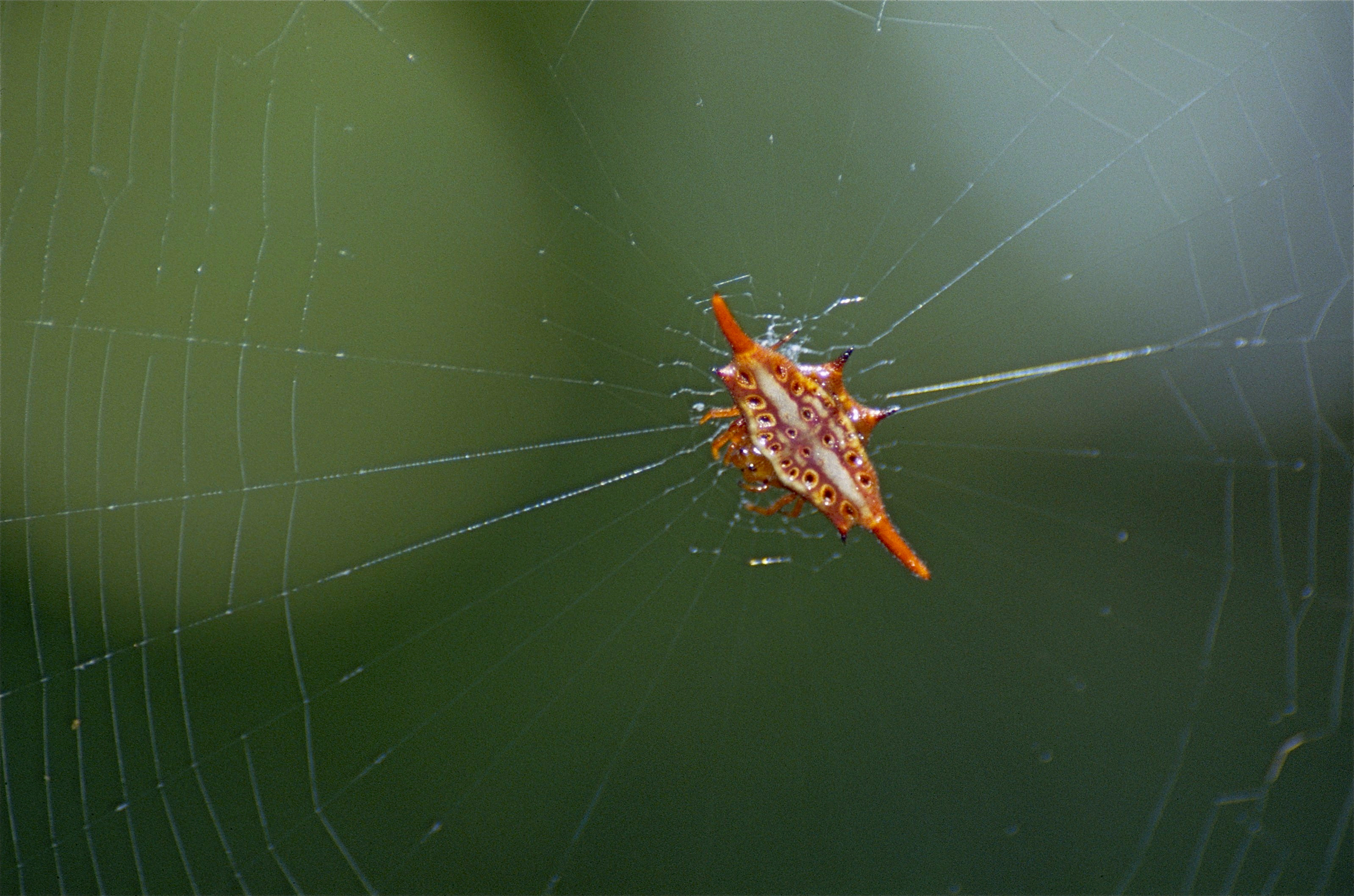 Analamazaotra Reserve, Perinet, MADAGASCAR Scanned Slide from 1998